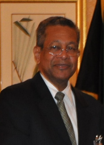 Jamaican Foreign Minister Kenneth Baugh during a meeting with U.S. Secretary of State Hillary Rodham Clinton in Montego Bay, Jamaica, on June 22, 2011. [State Department photo/ Public Domain]